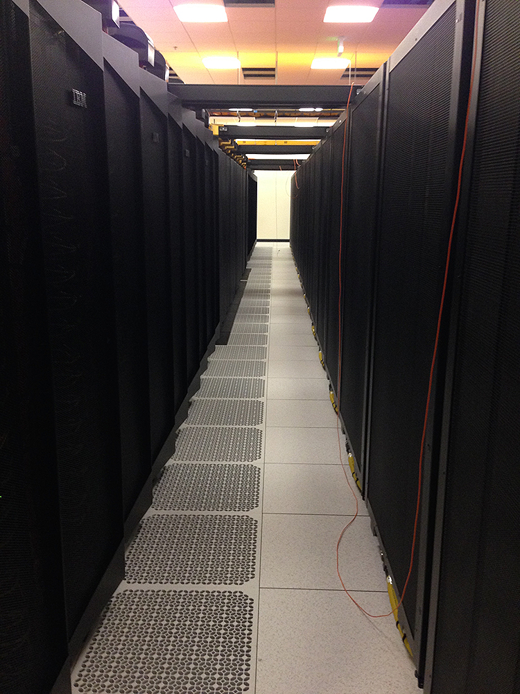 With NSF support, the NCAR-Wyoming Supercomputer Center (NWSC) in Cheyenne, Wyo., houses high performance computers, mass storage (data archival) systems and related systems and infrastructure. The center is operated by the National Center for Atmospheric Research (NCAR). The center’s flagship supercomputer, known as Yellowstone, has the ability to work at 1.5 petaflops, equal to 1.5 quadrillion (a million billion) mathematical operations per second. Researchers use the supercomputer to advance scientific understanding of climate change, severe weather, air quality, and other atmospheric and geosciences challenges. This is a view of some of Yellowstone’s 100 racks. Find out more about NSWC at . Credit: Karen Pearce, NSF